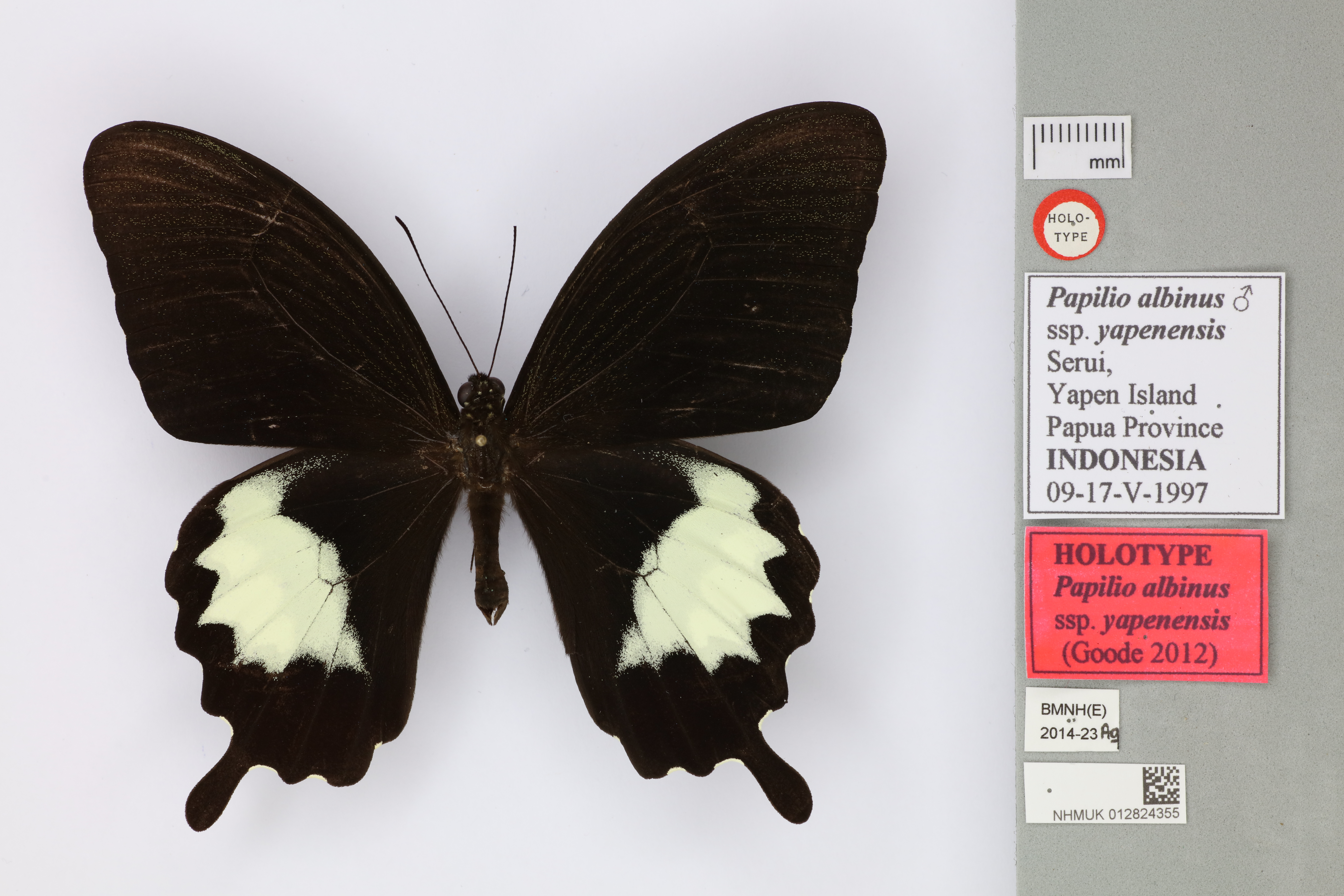 A dorsal photograph of Papilio albinus yapenensis, Goode, 2012, a Holotype